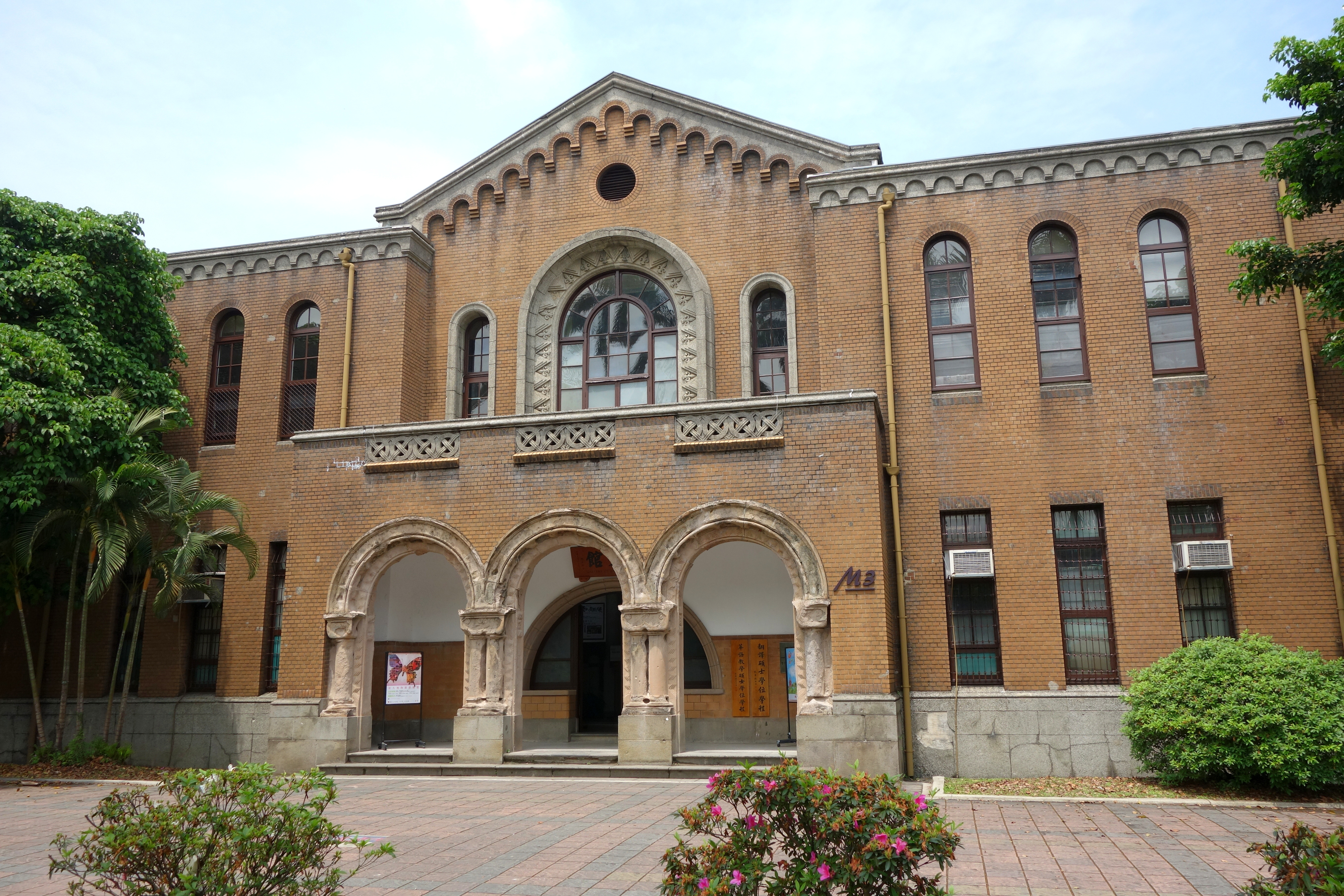 Gallery of NTU History.